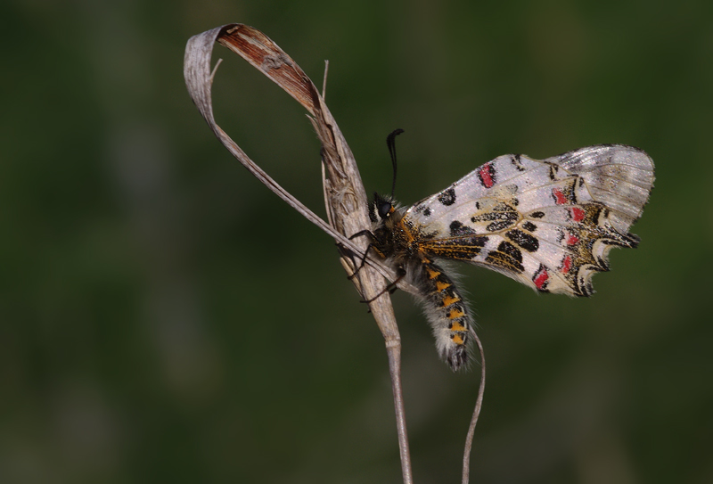 Wing underside view of an "Eastern festoon" butterfly (Allancastria cerisyi). Adana, Turkey. 87 m.